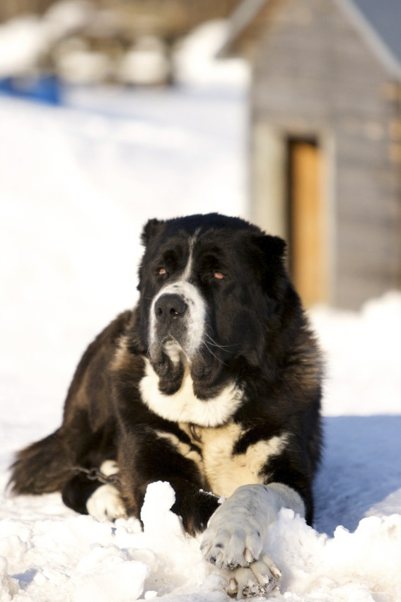 Alabai dog